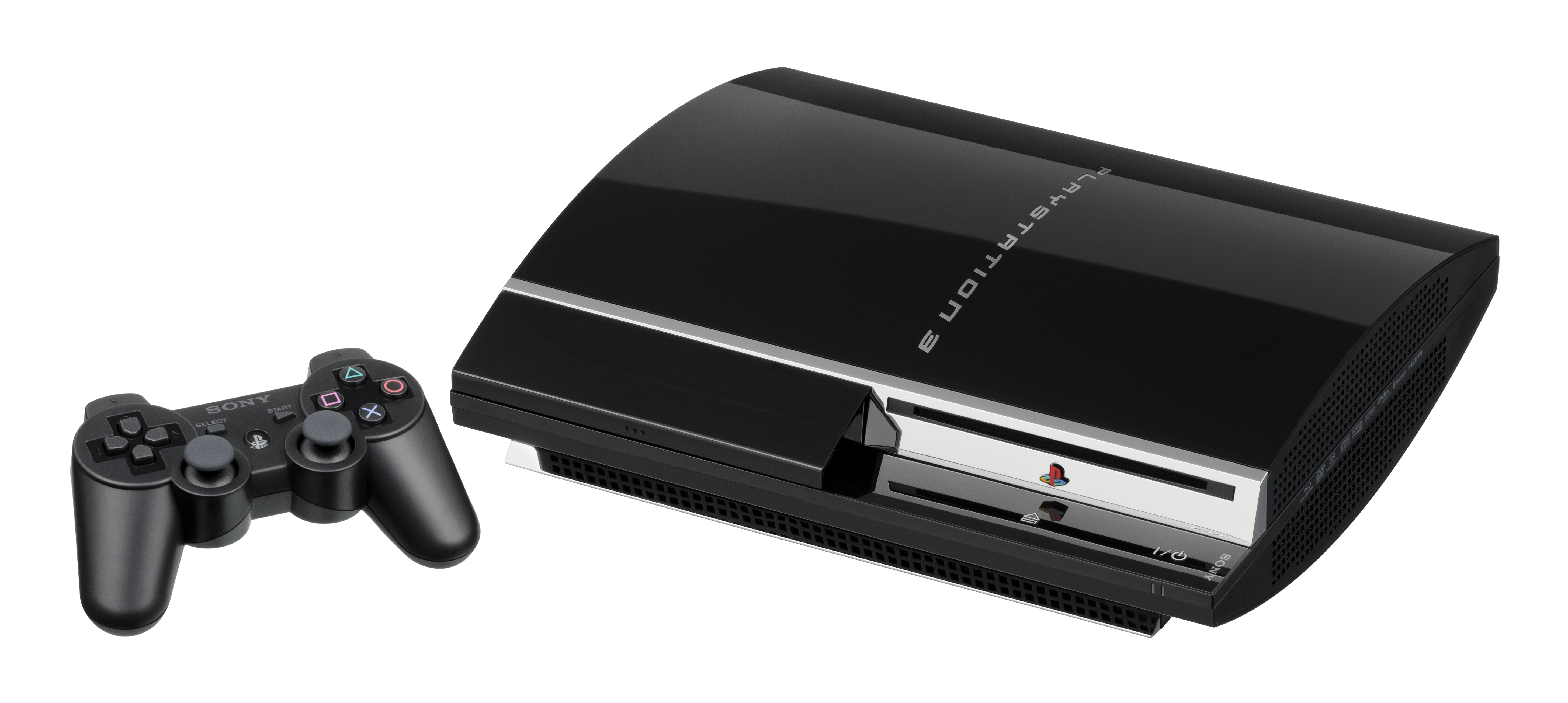 The Sony PlayStation 3 (PS3) video game console, shown with DualShock 3 controller. This is a seventh generation console first released in 2006 as the successor to the PlayStation 2. This model is the CECHA01, one of the first two models released. It features a 60GB hard drive, hardware-based backwards compatibility with PS2 games and flash memory card readers.